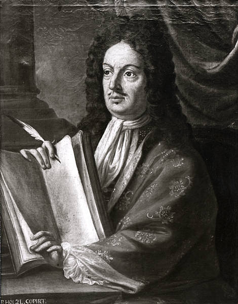 The bavarian cancelor Johann Adlzreiter von Tettenweis (1596-1662)